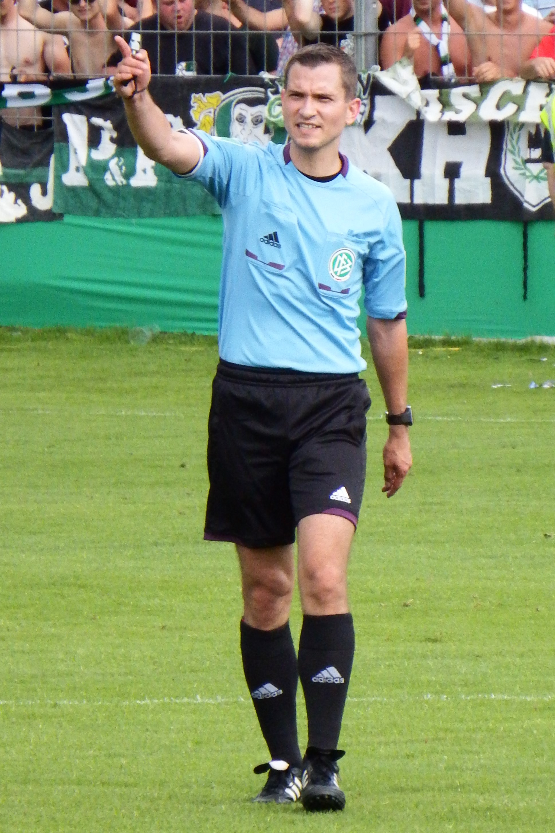 Marcel Unger German Referee